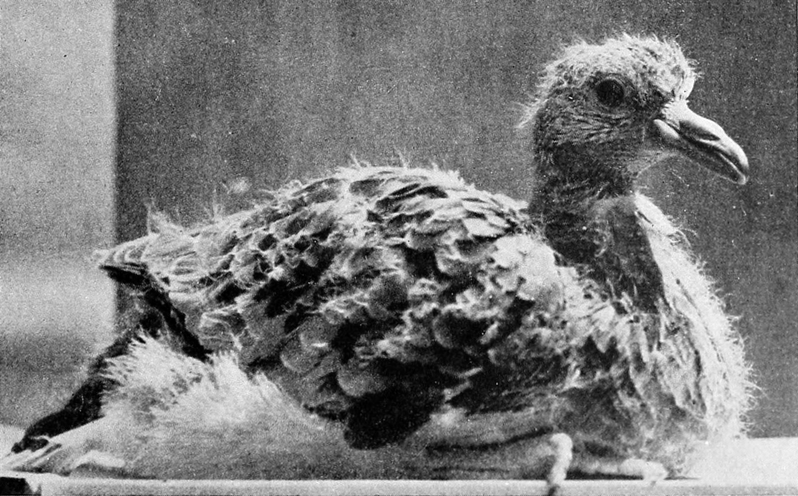 Live passenger pigeon chick.